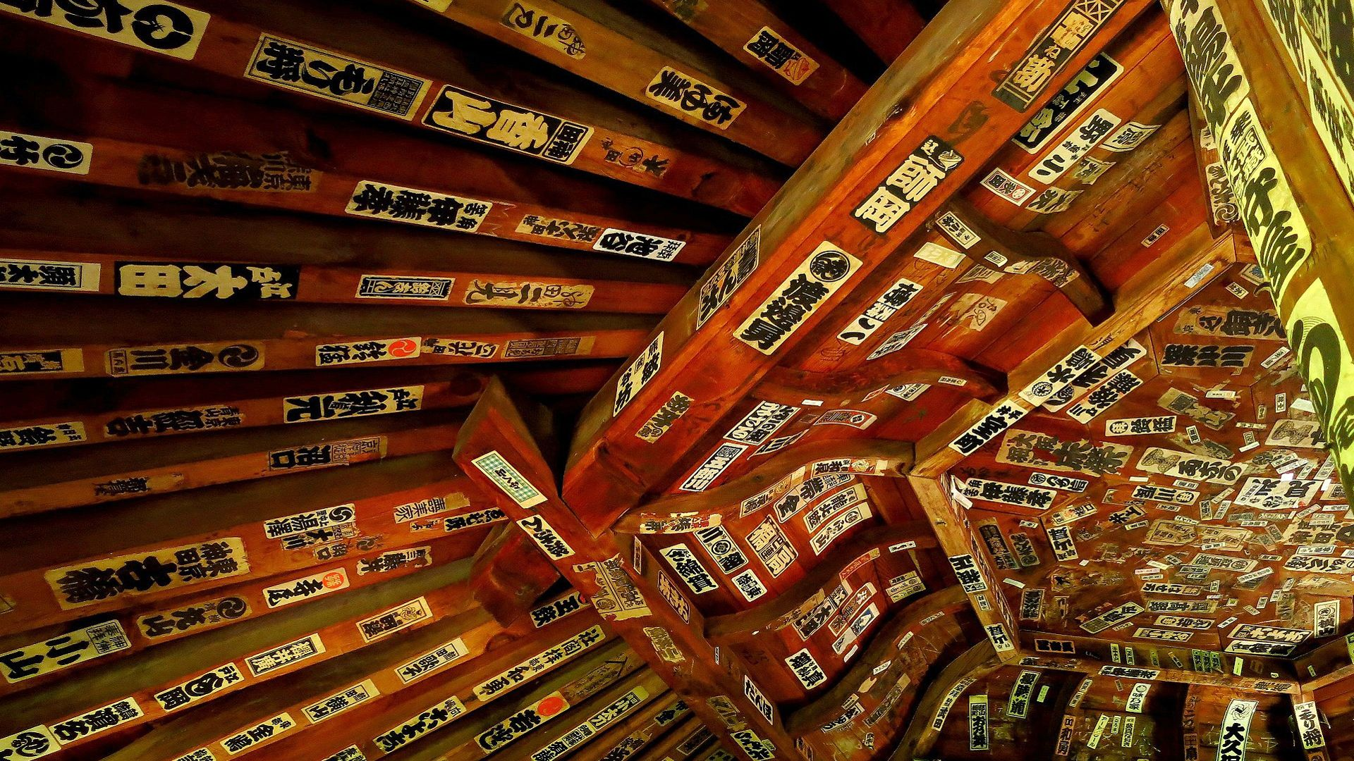 Sazae-do Hall, Aizuwakamatsu, Fukushima, Japan